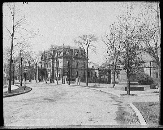 Pullman Residence on Prairie Avenue